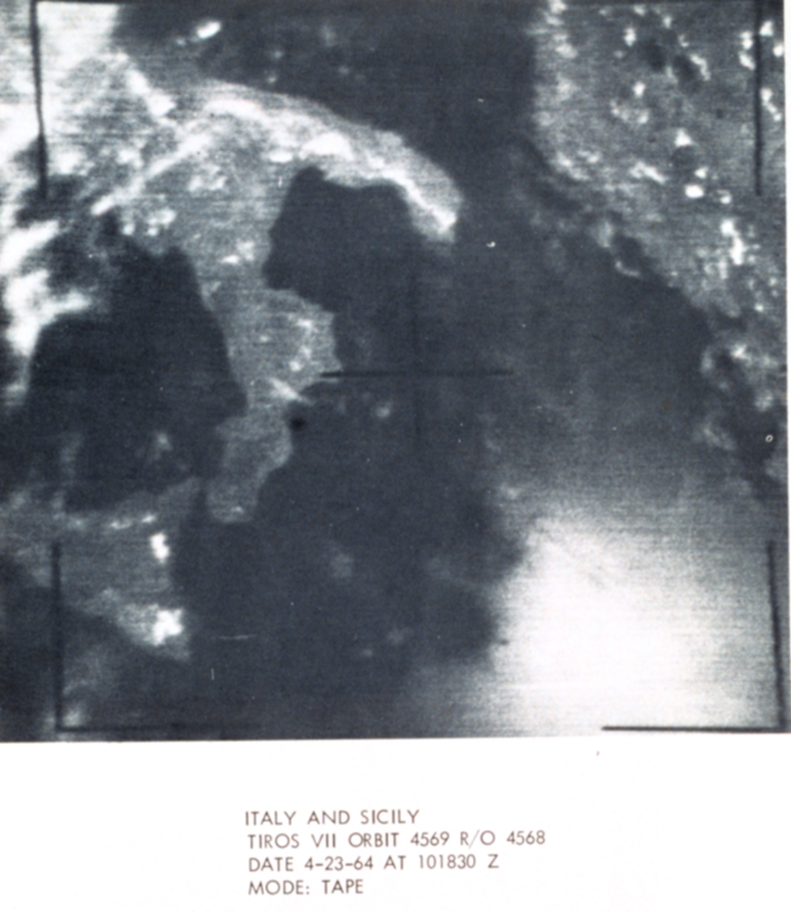 TIROS VII orbit 4569 R/O 7679 image of Italy and Sicily. In: "The Best of TIROS," NASA Goddard Spaceflight Center, 1965.